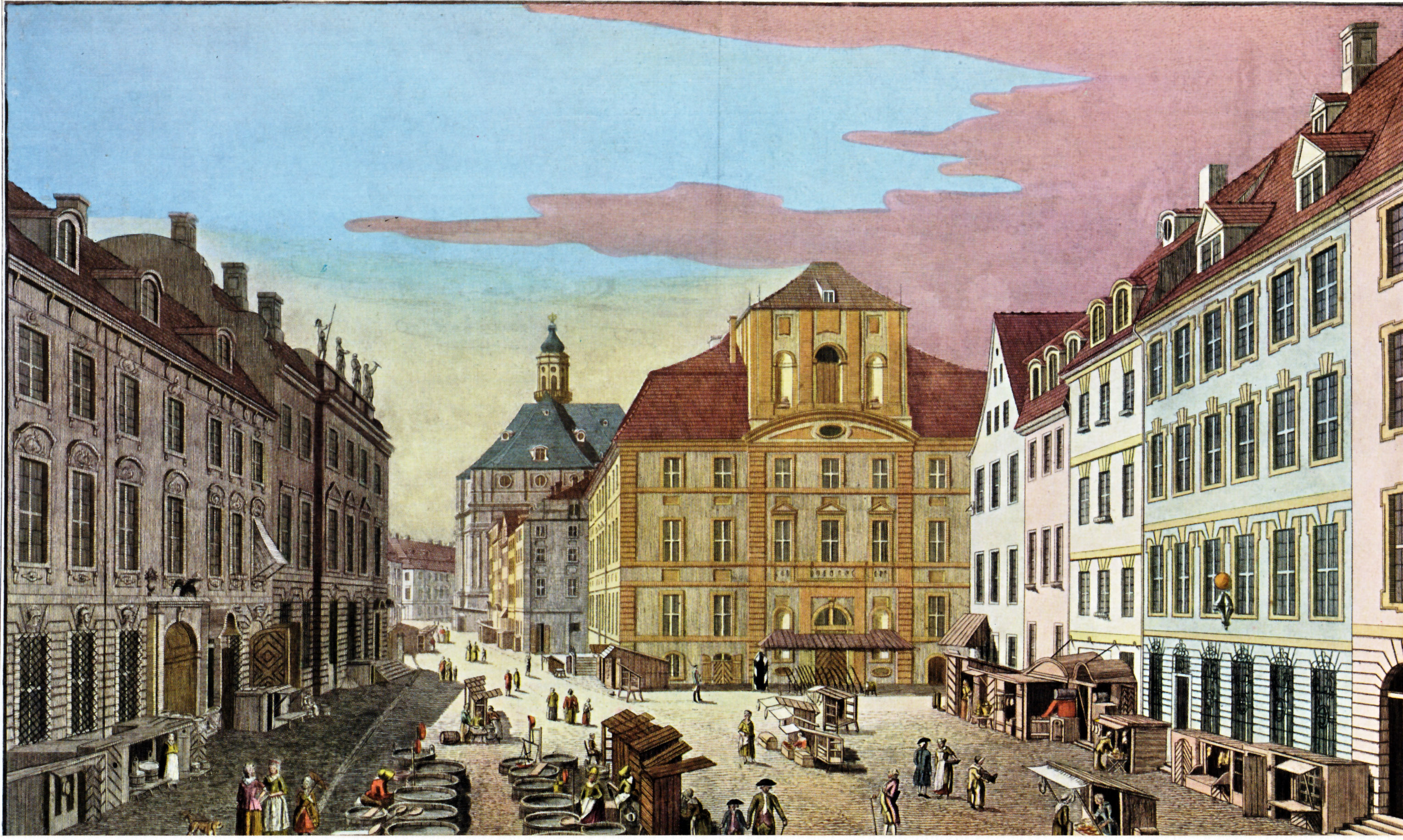 The Cölln Townhall 1784